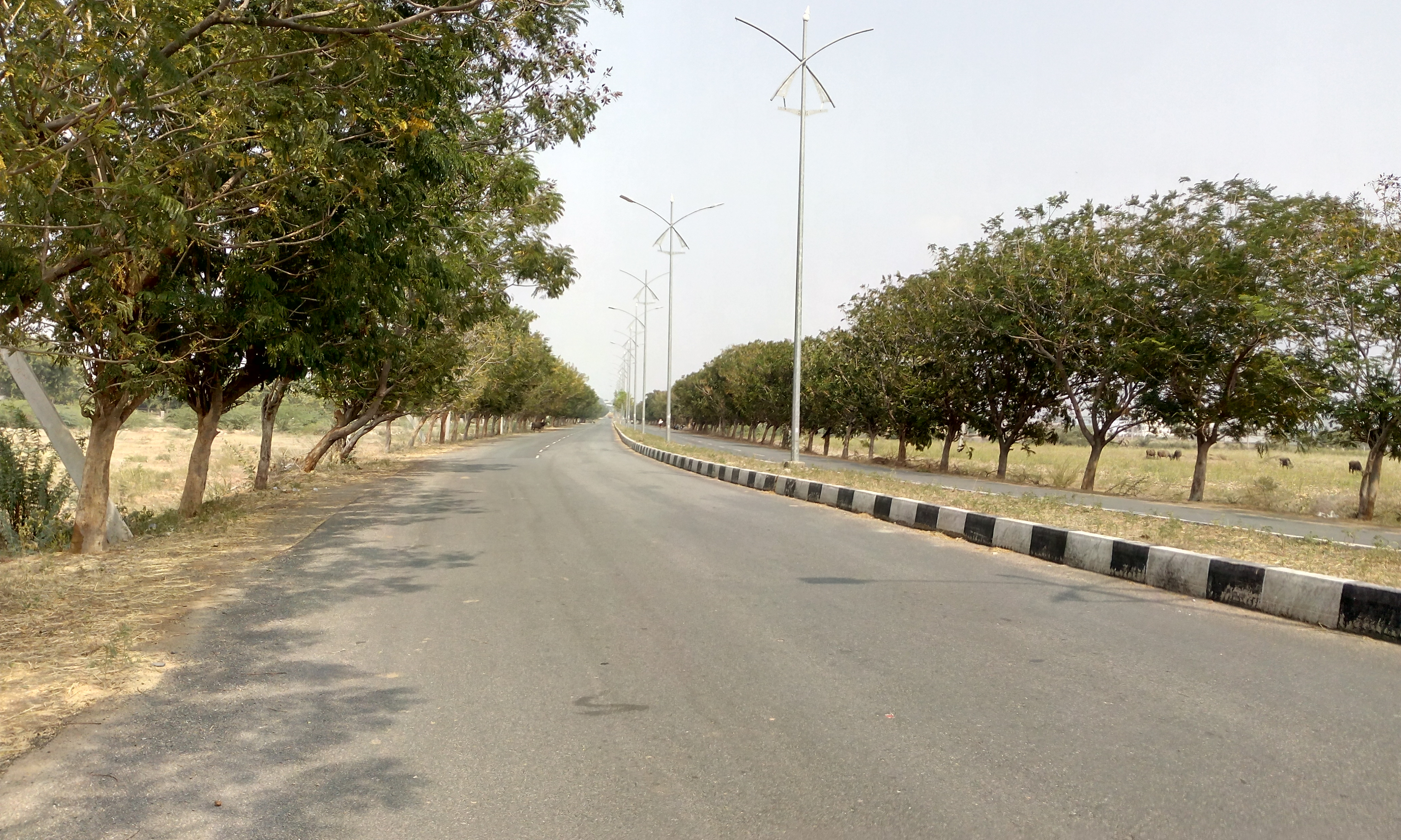 Pulivendula Ring Road